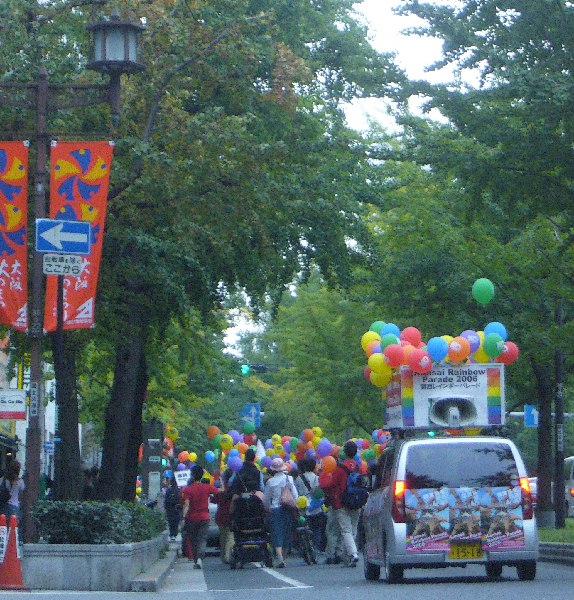 First gay pride in osaka, oct 2006